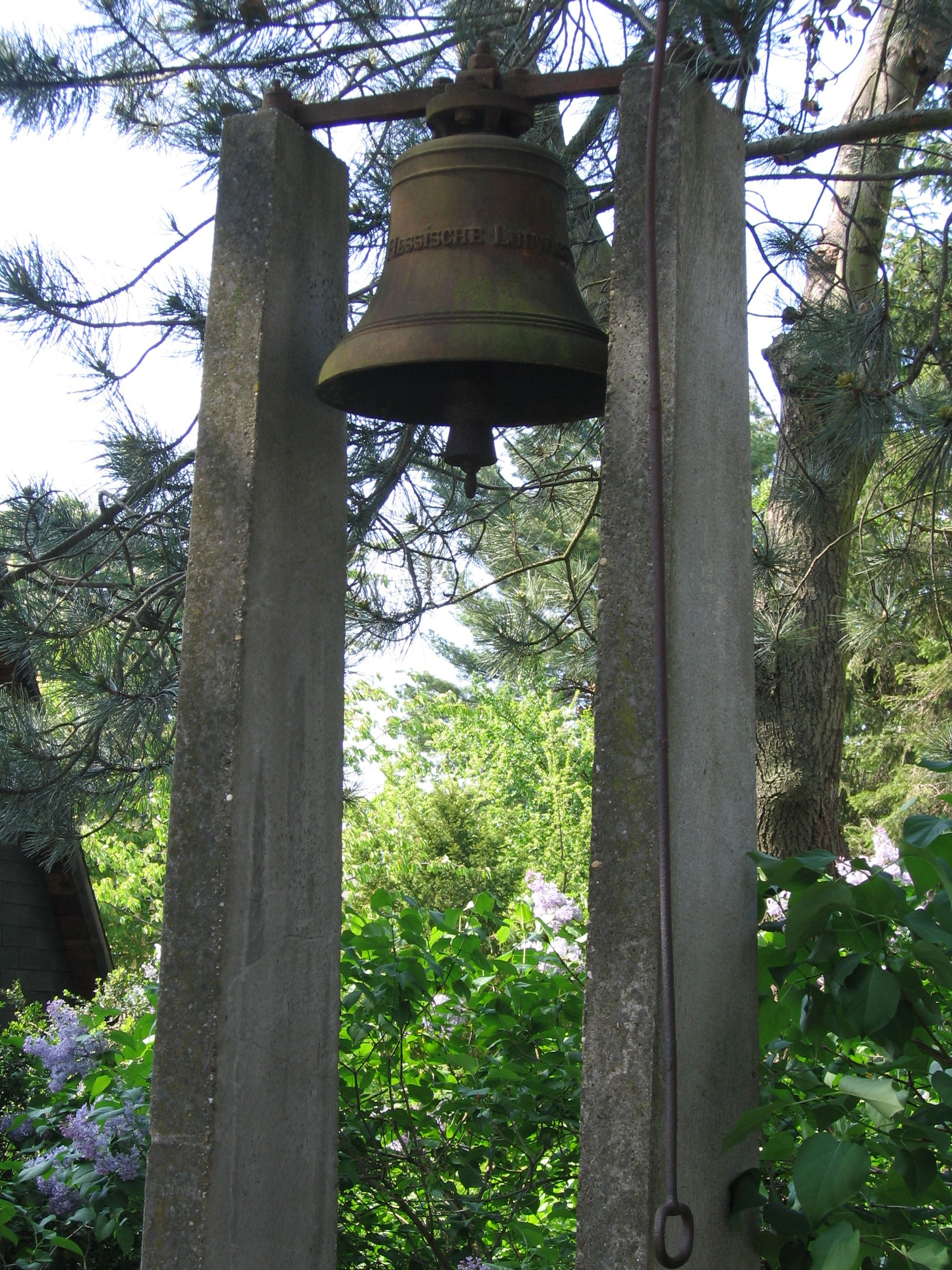 Bell for a railway-station of Hessische Ludwigsbahn